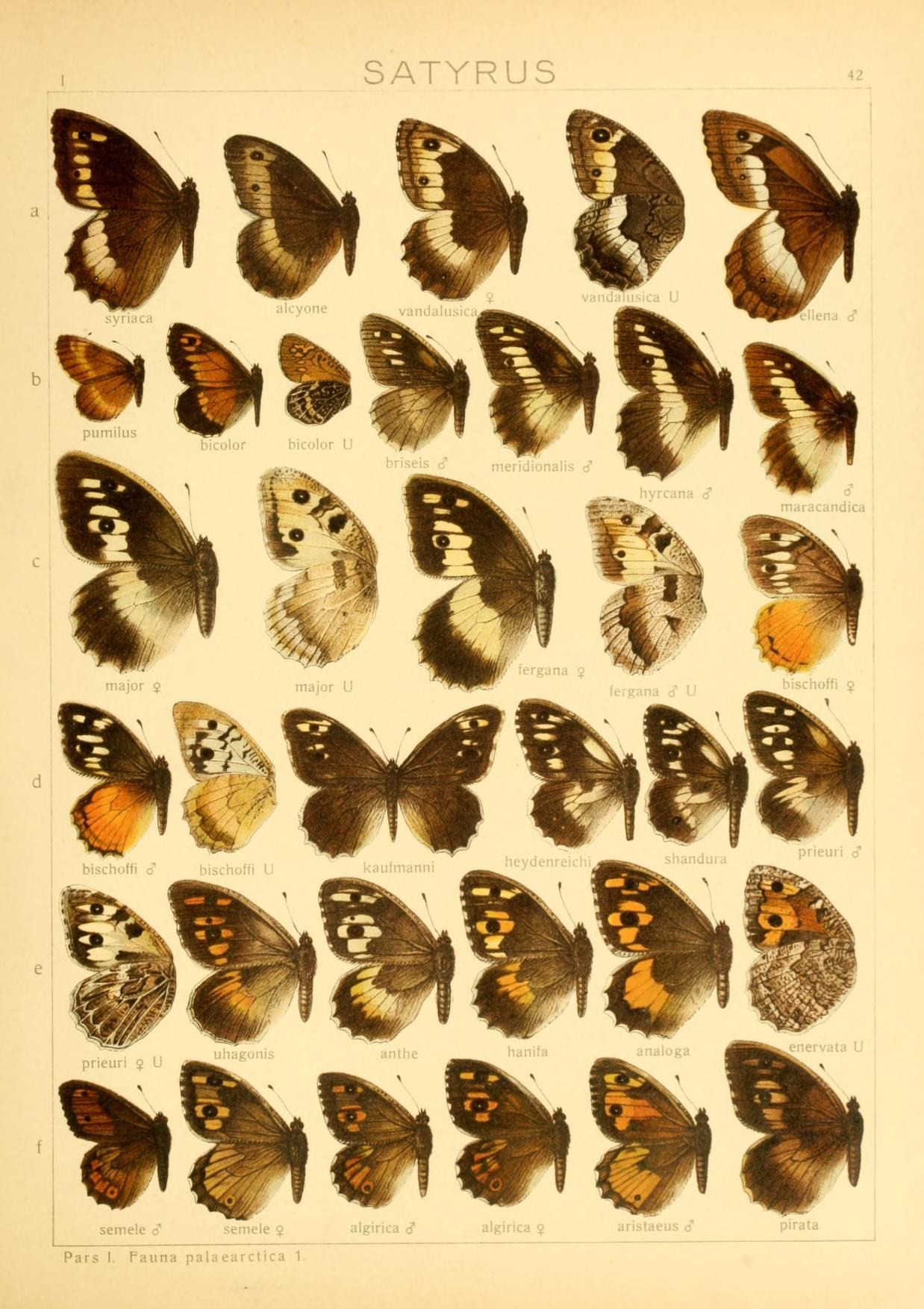 SATYRUS 9. W i .■. ..-.ciJo meridionaiis a '^f^f^ T^^L m y- ^ mm. prieuri .^ ^Wlw^w iaririca .? alRiricH v Pars I. Fauna paiaearciica